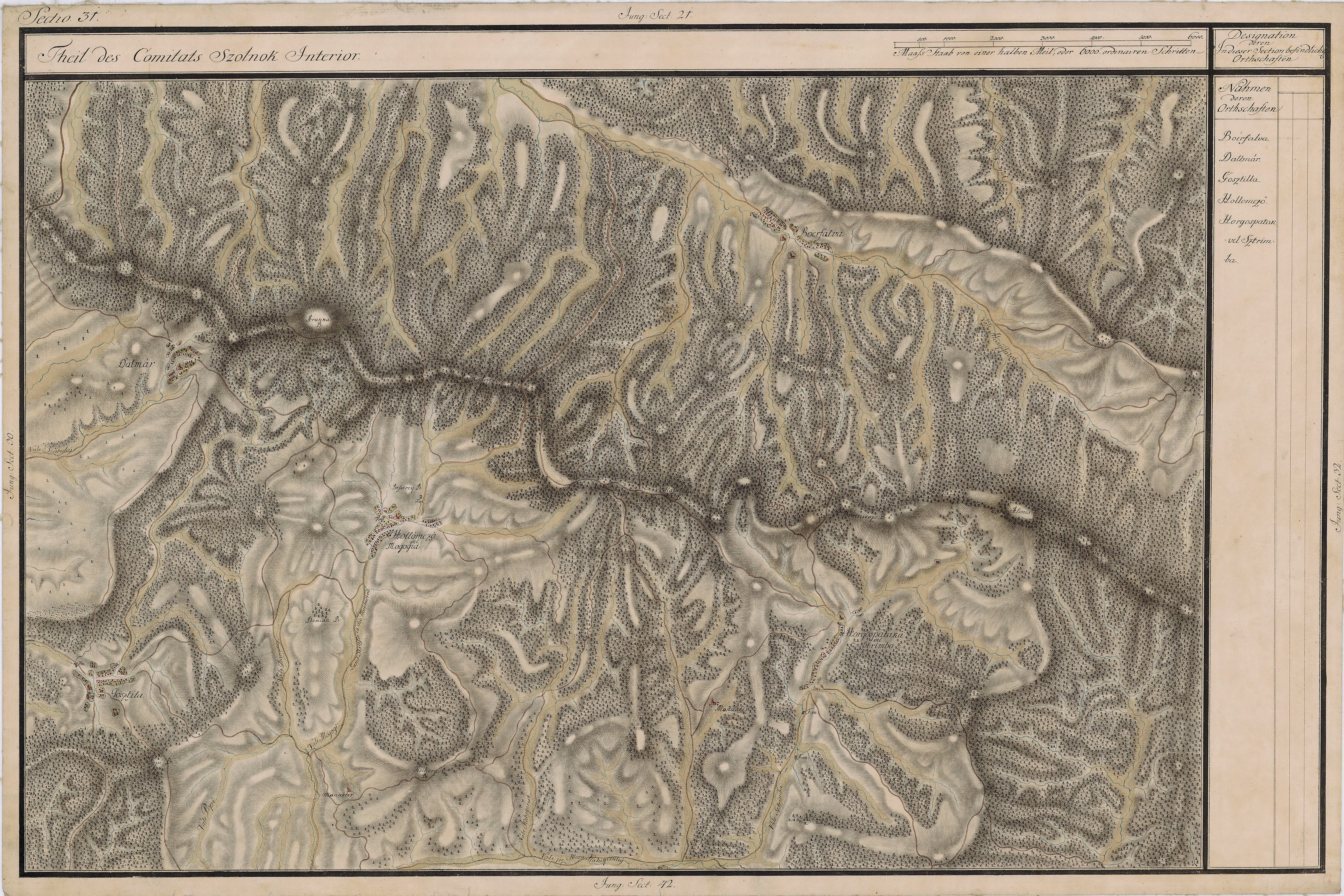 Grand Duchy of Transylvania, 1769-1773. Josephinische Landaufnahme pg.031